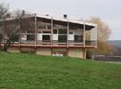 Adeppa at Vigy - France